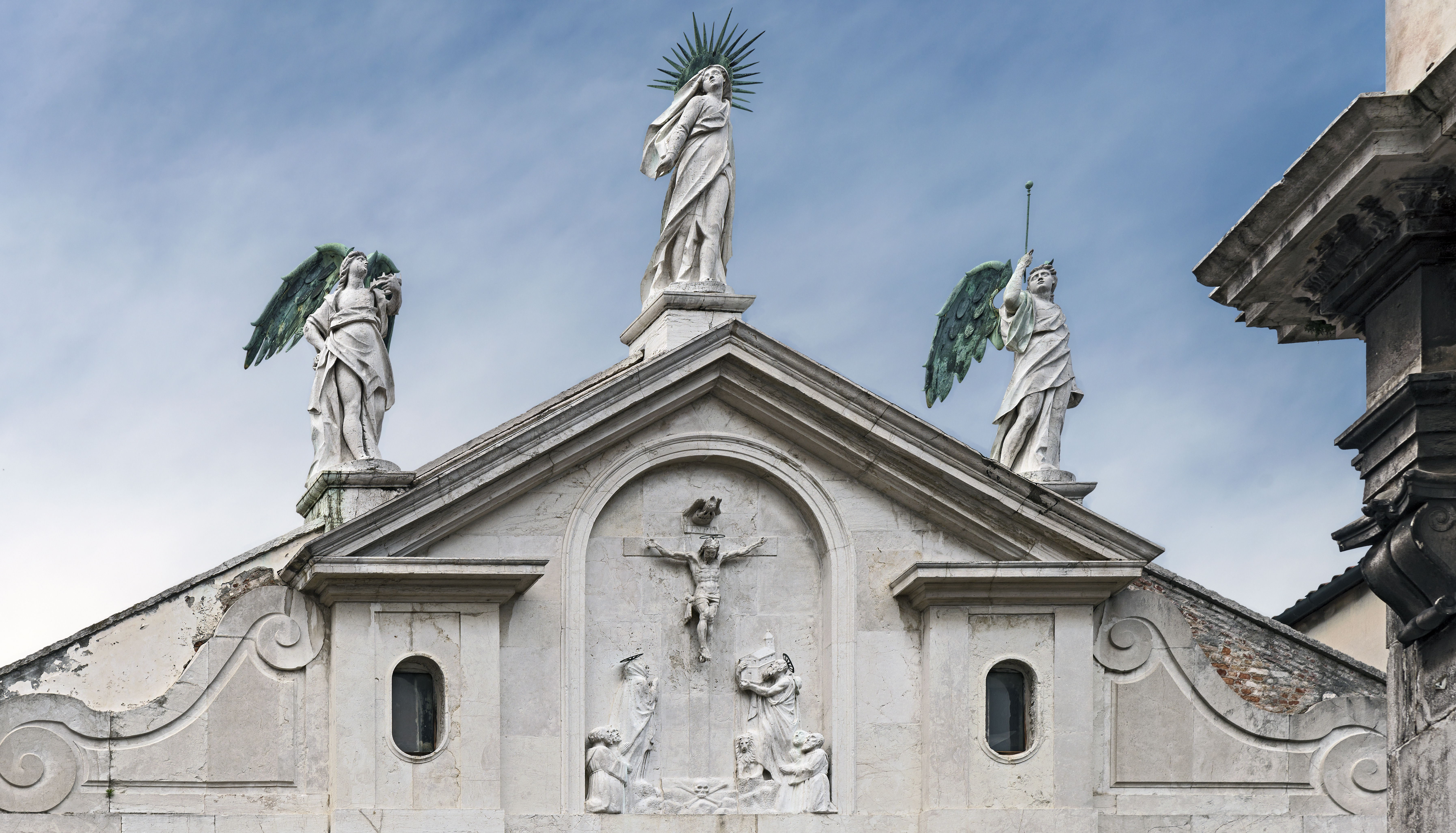 Scola di San Fantin in Venice. Pediment of the facade on Campo San Fantin ; Alessandro Vittoria, Madonna and Angels [1584] crowning the facade (completed in 1604).